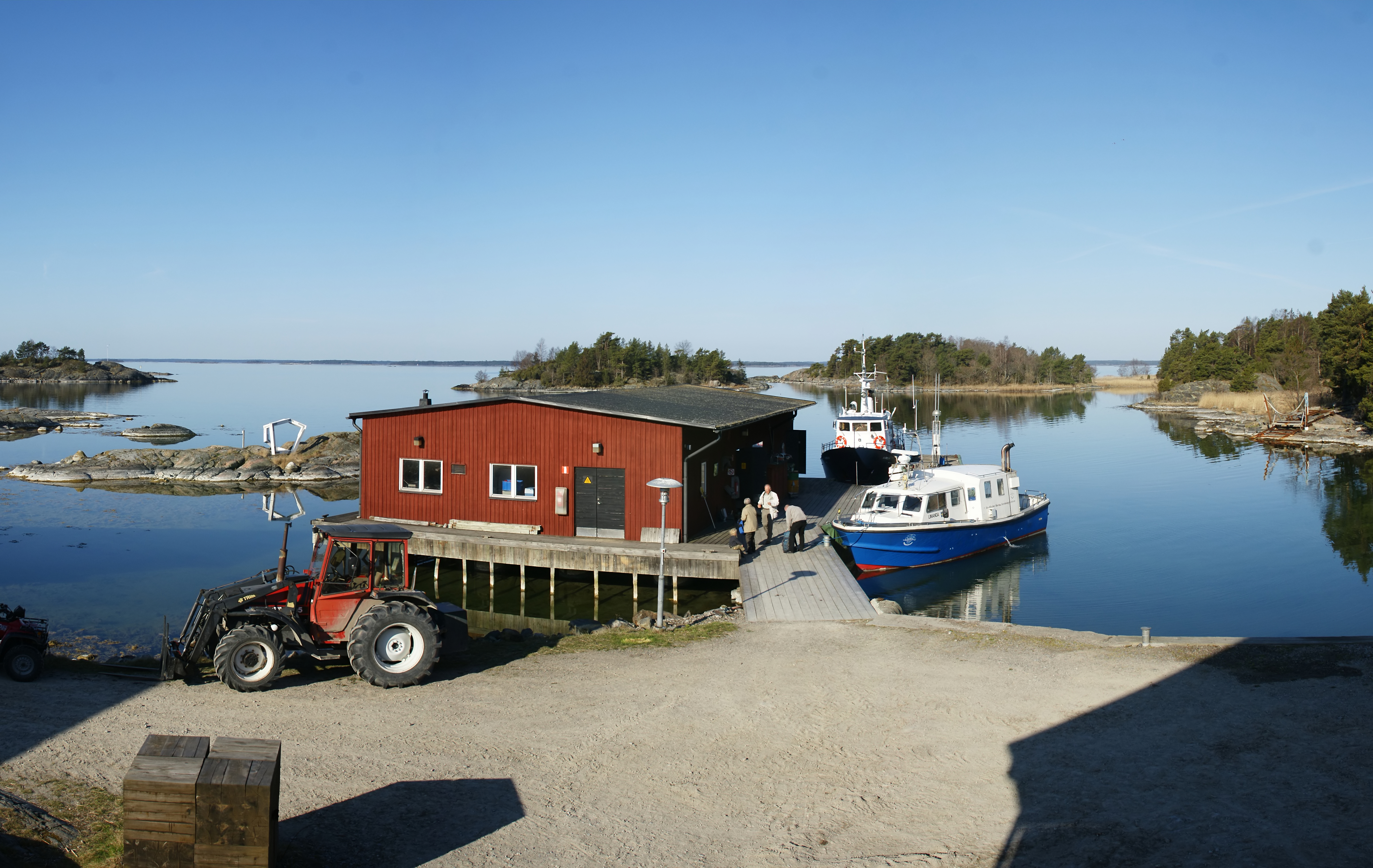 Harbour of the biological field station Askö Laboratory, situated on the island of Askö, about 90 km south of Stockholm and 50 km north of Nyköping, Sweden